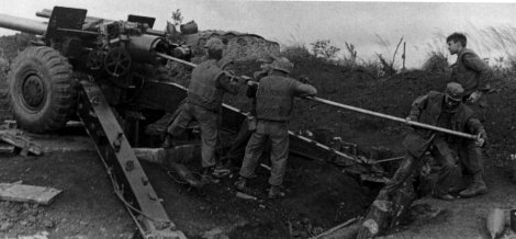 Marines of Battery W, 1st Battalion, 13th Marines at Khe Sanh are seen preparing to load a M114A 155mm howitzer.